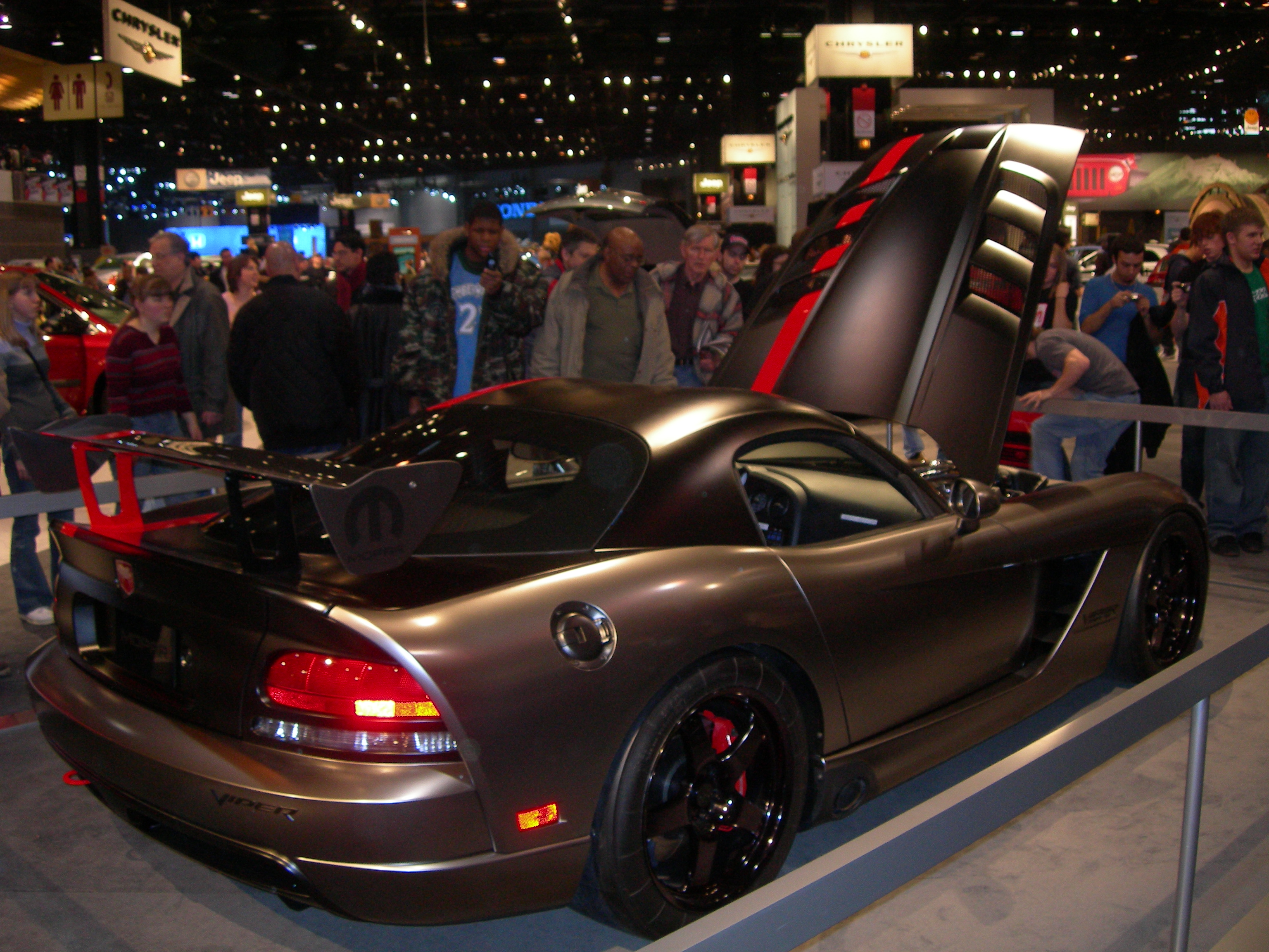 Viper Mopar